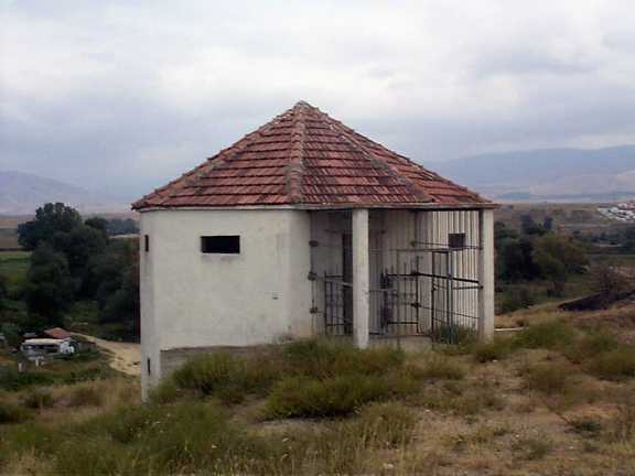 view from outside, image from the Anthropological Museum, Perdikkas, West Macedonia, Greece